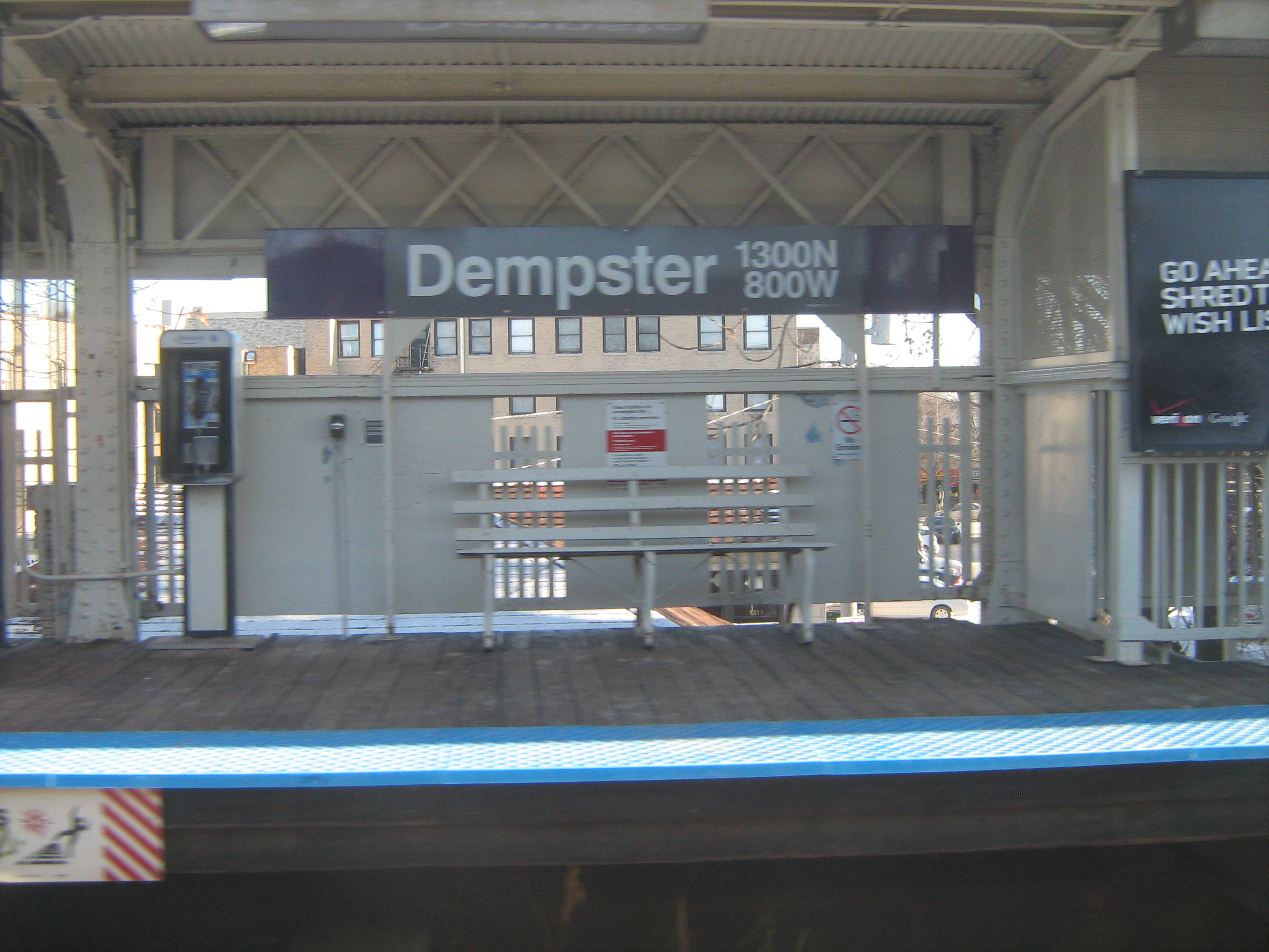 Dempster Station for the Chicago "L" train